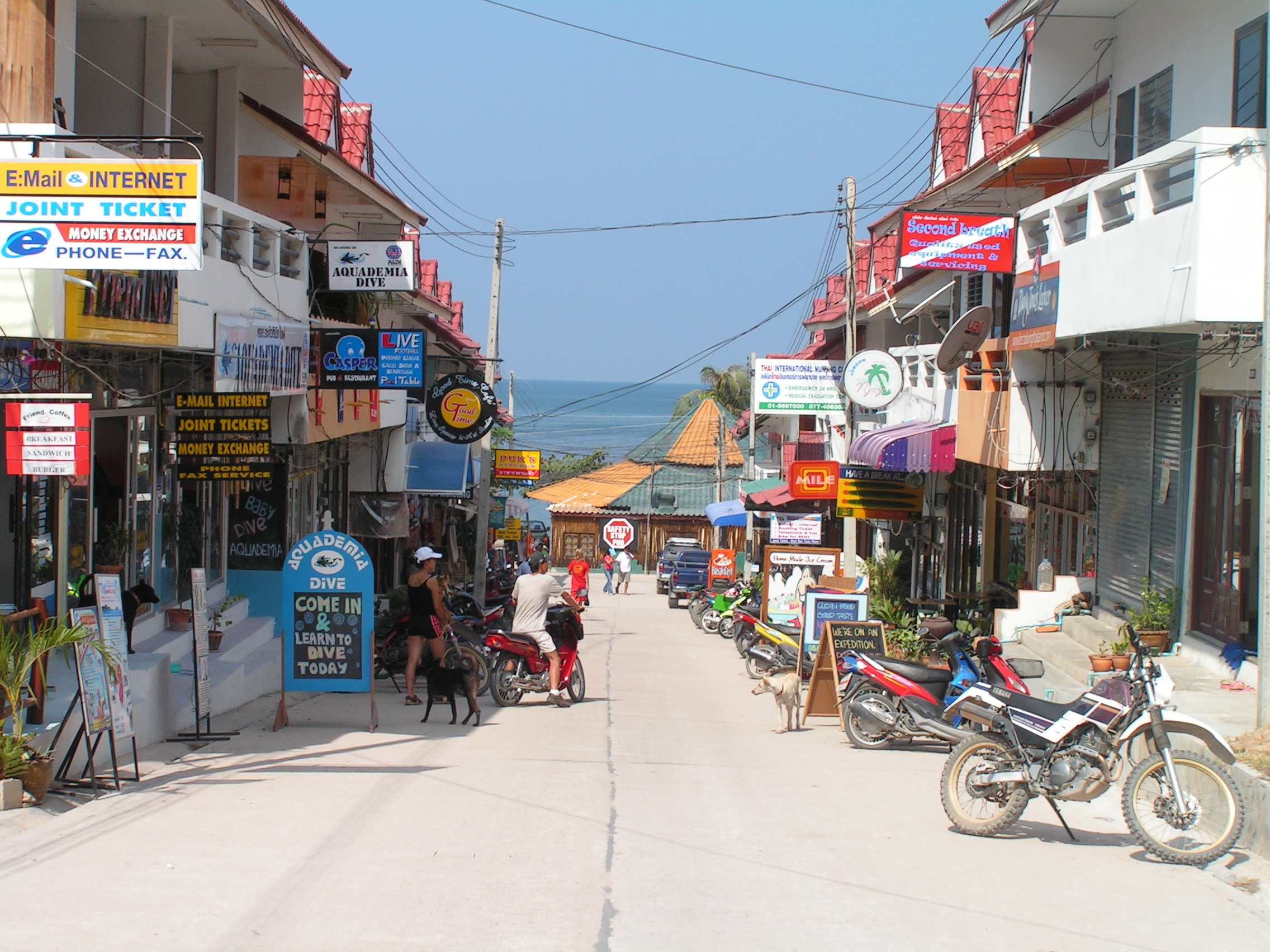 Koh_Tao_Street